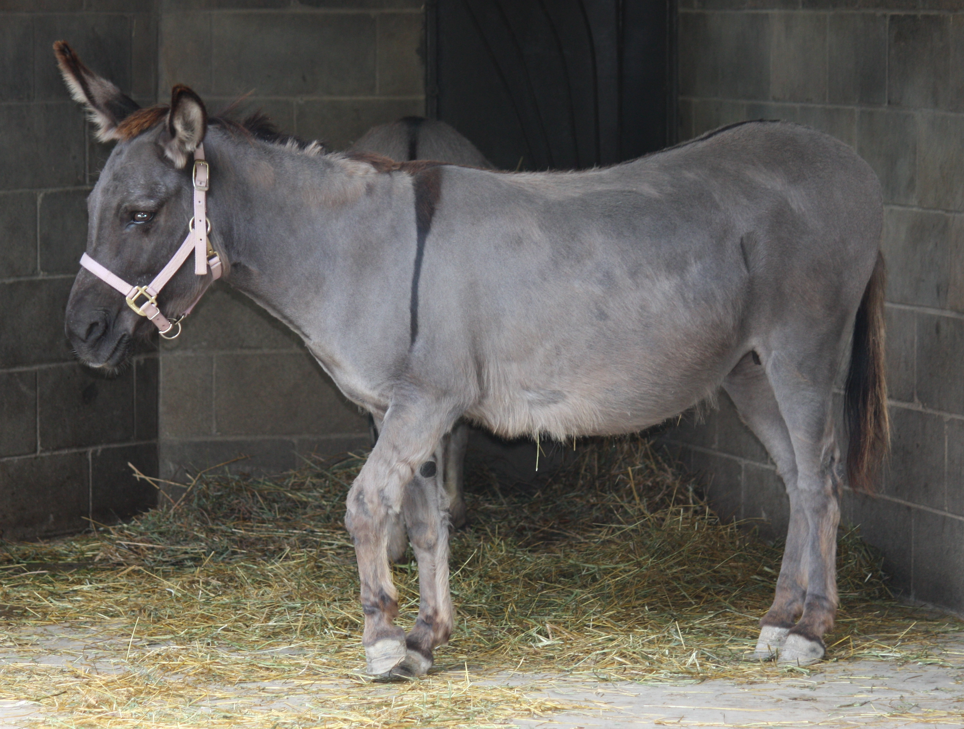 Donkey at Binder Park Zoo in Battle Creek, Michigan